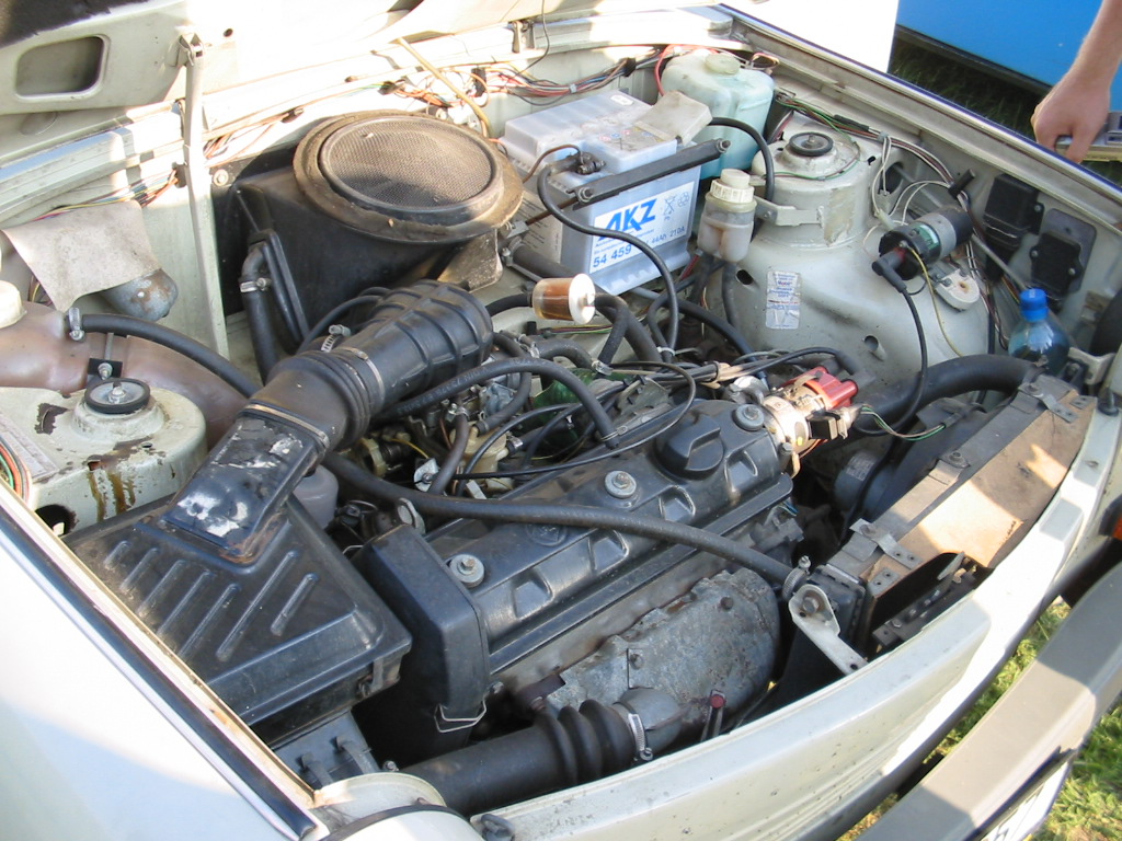 Engine compartment of the Trabant 1.1 with four-stroke engine, licenced version from the VW Polo.